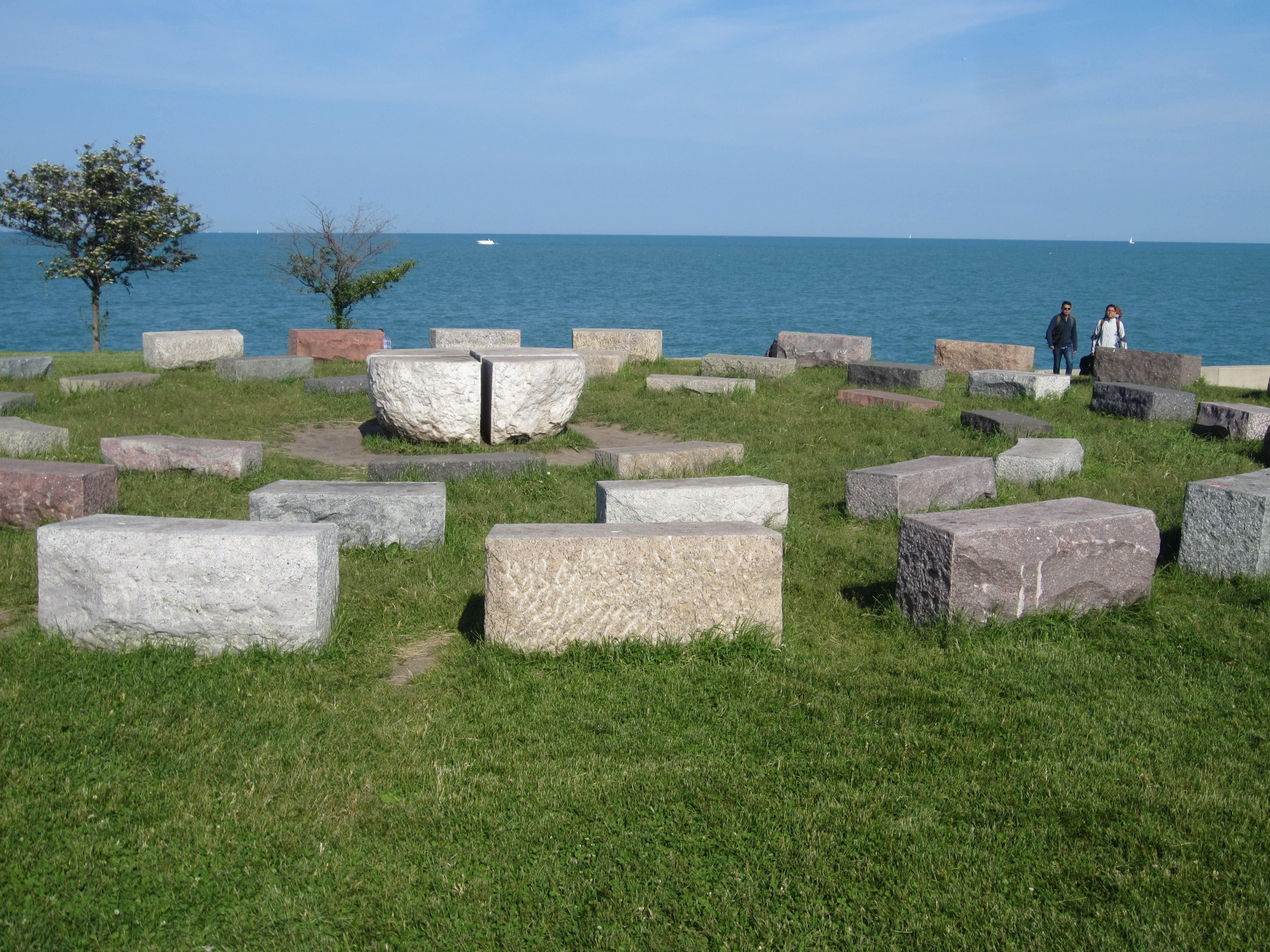 Chicago, Illinois, June 2015